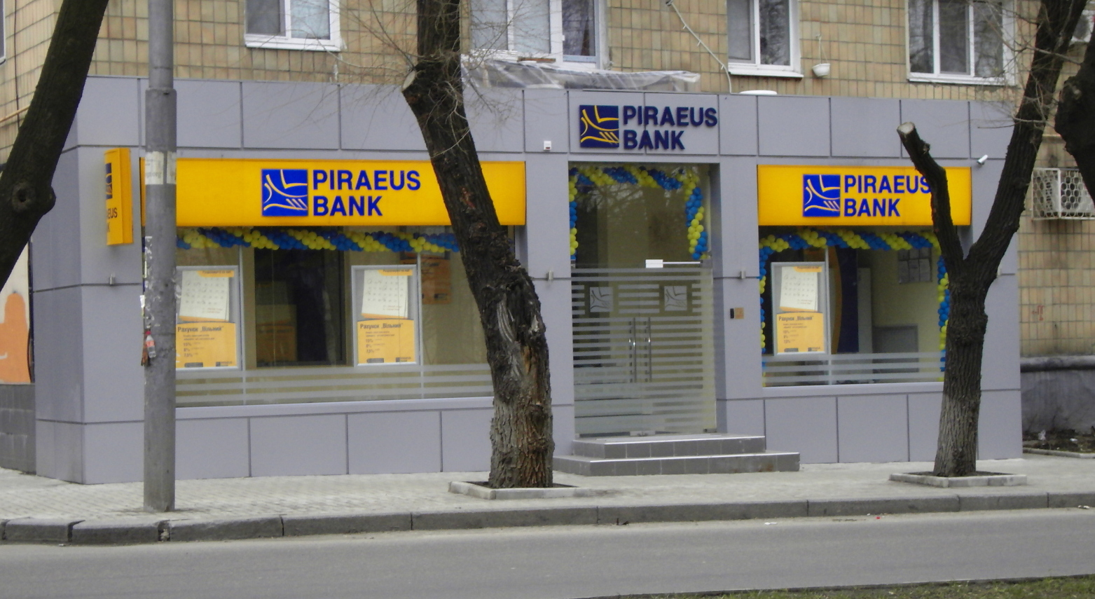 Piraeus Bank, Donetsk, Ukraine